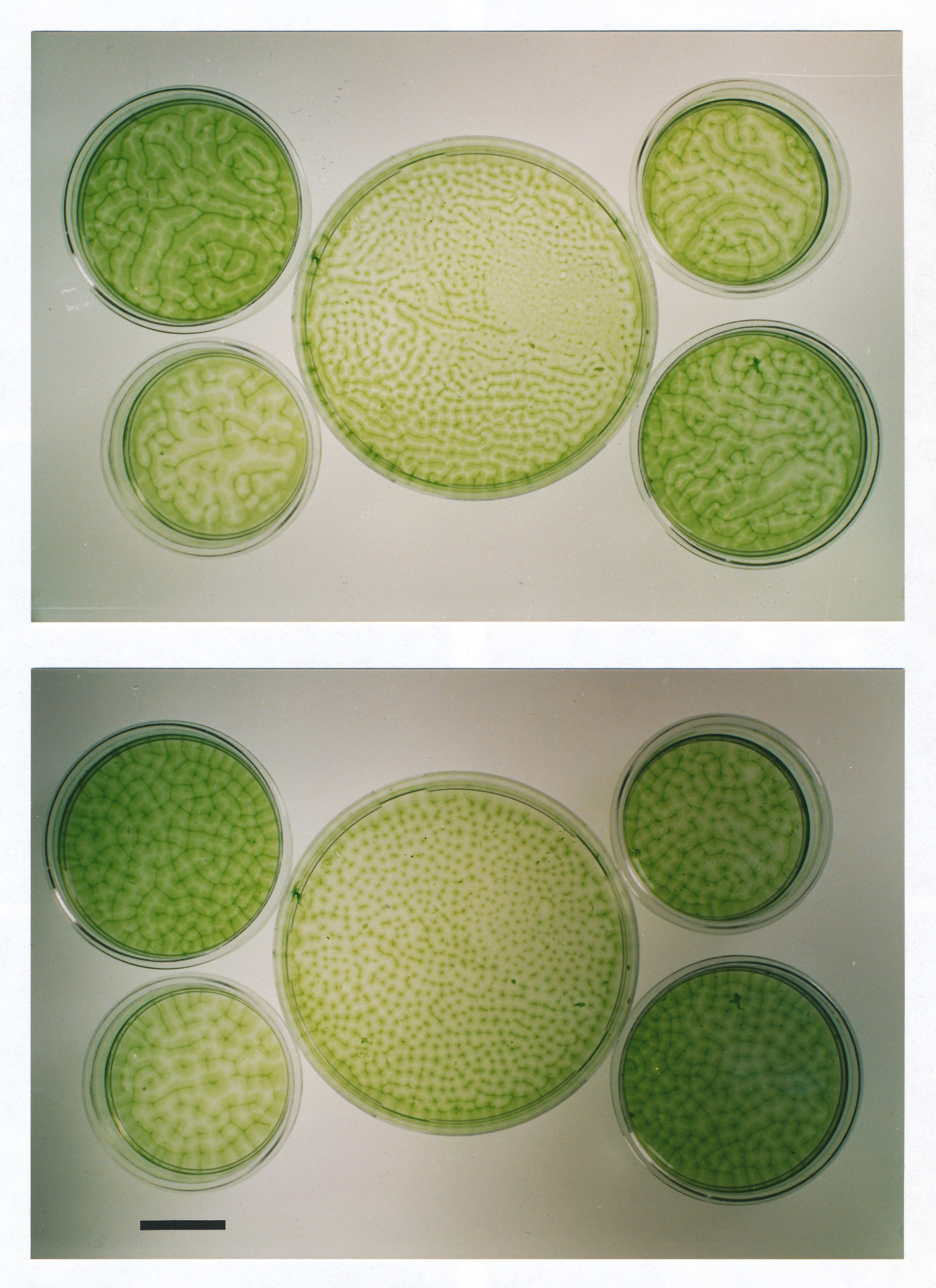 Bioconvection patterns of Euglena gracilis in 5 Petri dishes of different height and diameter, 2 time steps